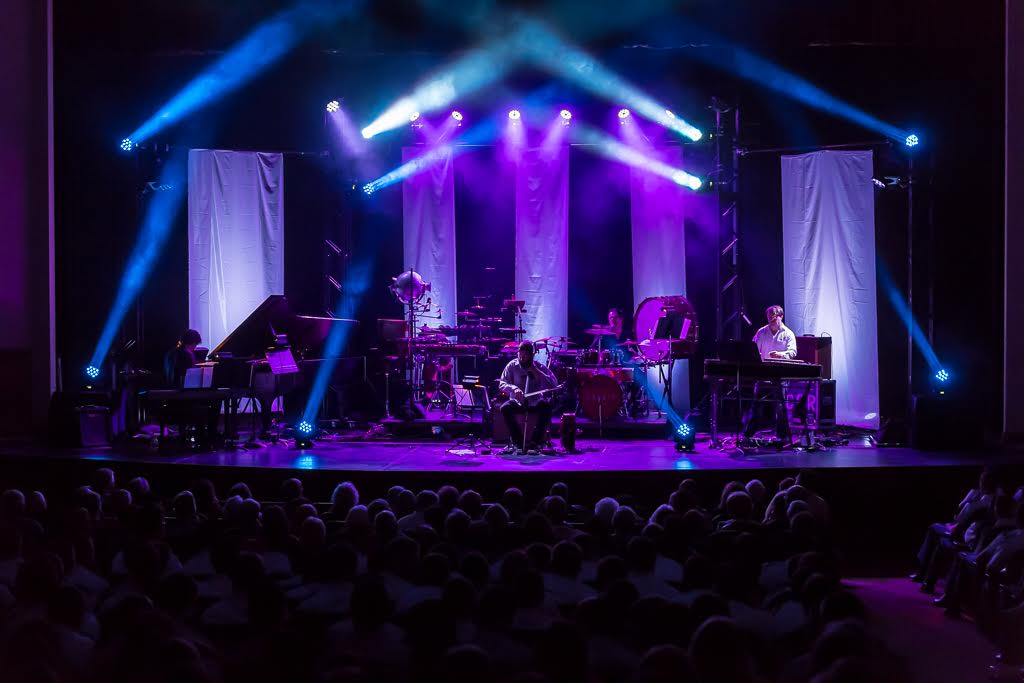 cordis performing live at Culver Academies, Culver, IN in 2014. Photo Credit: Lewis Kopp